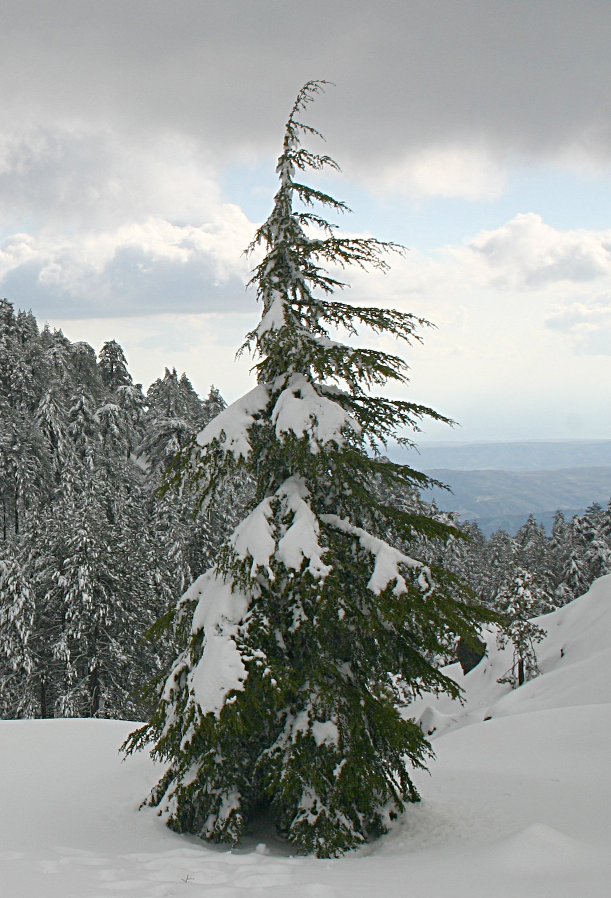 Cedrus libani var. brevifolia (Cyprus Cedar), young tree in winter snow on the Atalante Nature Trail, Troodos Mountains, Cyprus, 1700 m altitude.